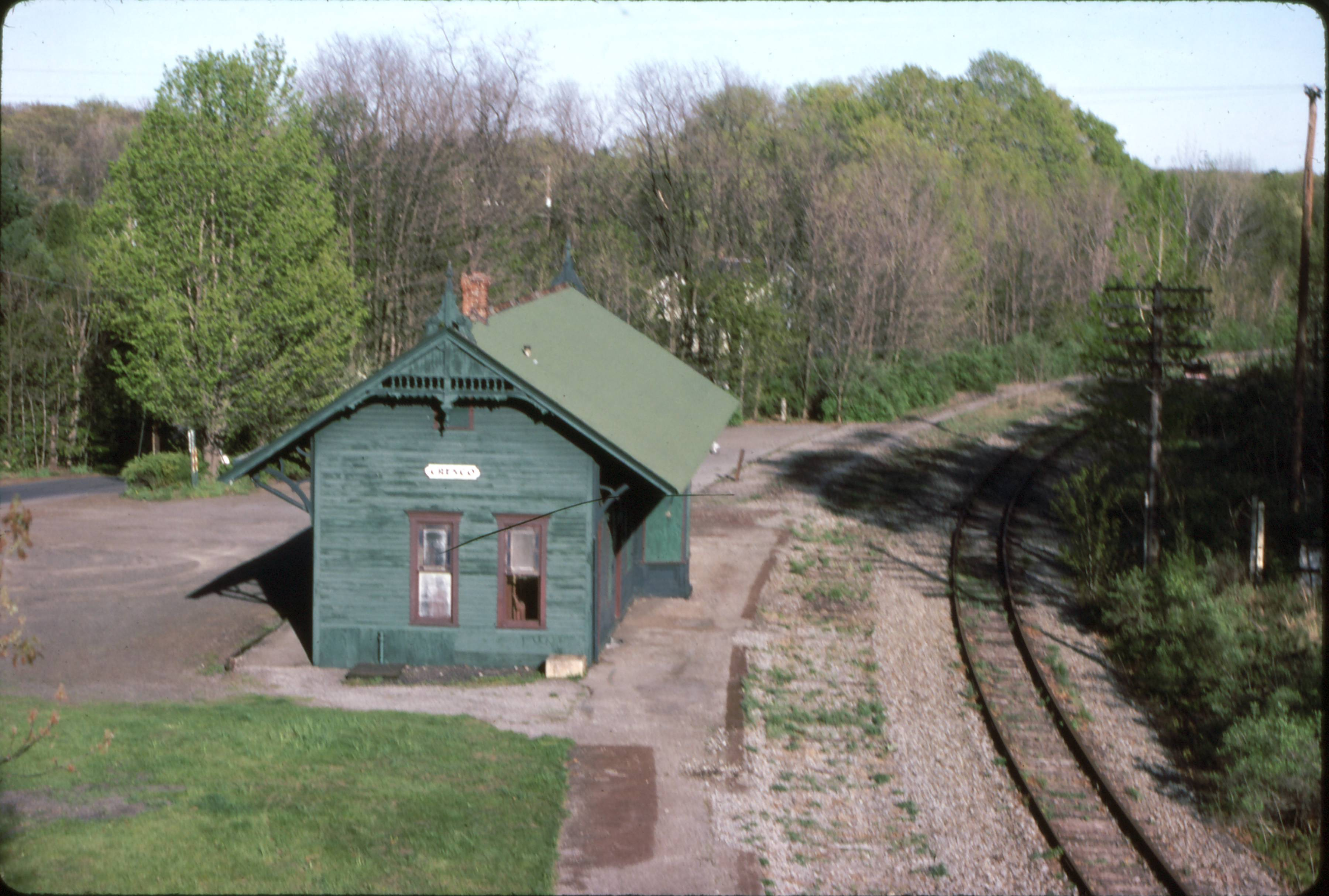 Chuck Walsh